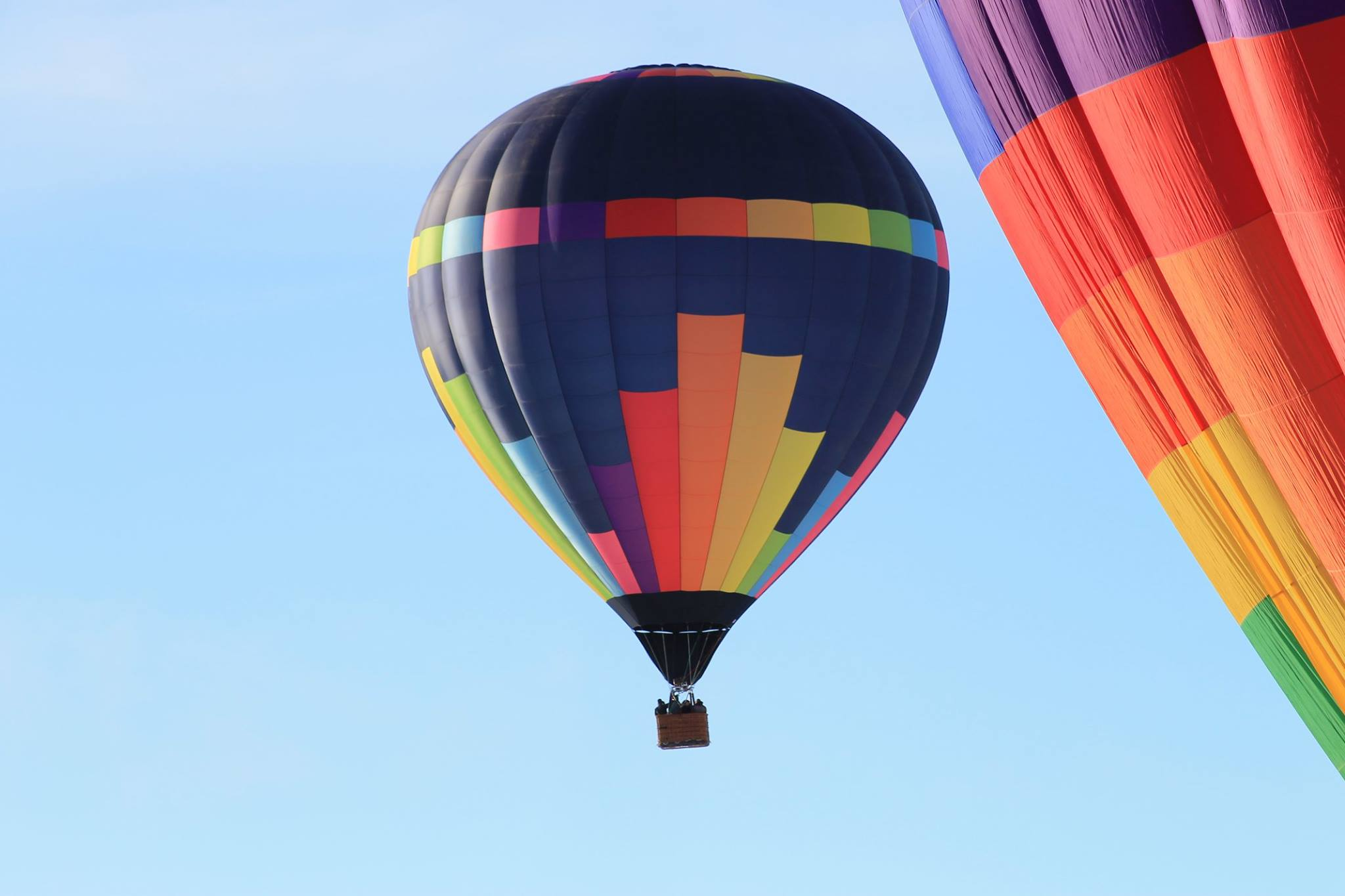 Brand new Cameron Z-150 designed by Seattle Ballooning